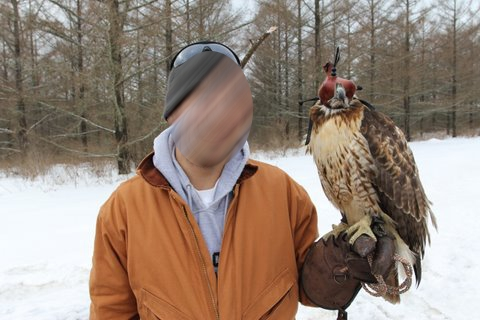 Adult Female